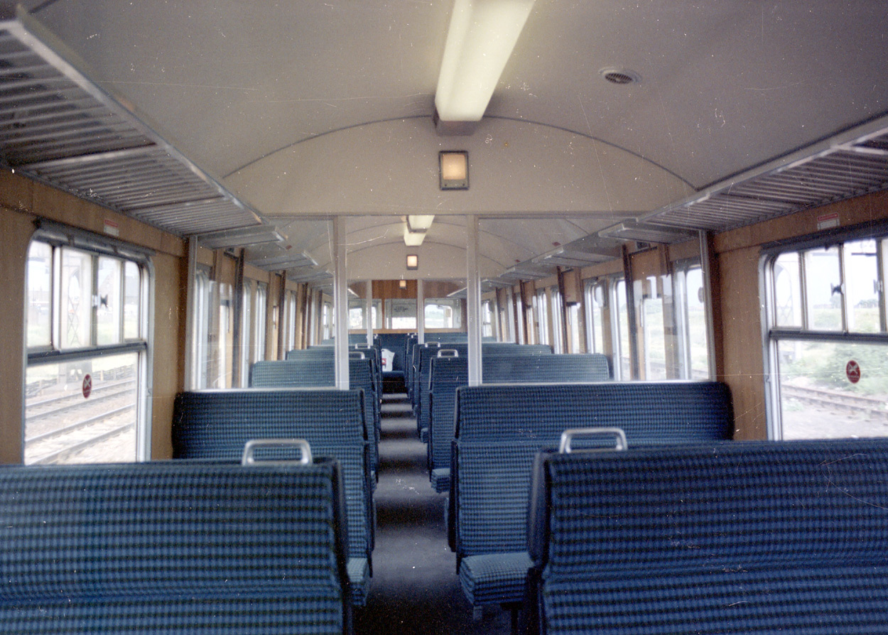 Inside a Class 312 driving trailer open. For second class passengers these trains featured 3+2 high back seating. Also visible is that the passengers behind the driver were able to enjoy a driver's view of the route ahead, although sometimes the driver would close the blinds by the driver's cab rear window to block this view. Photographed by SP Smiler